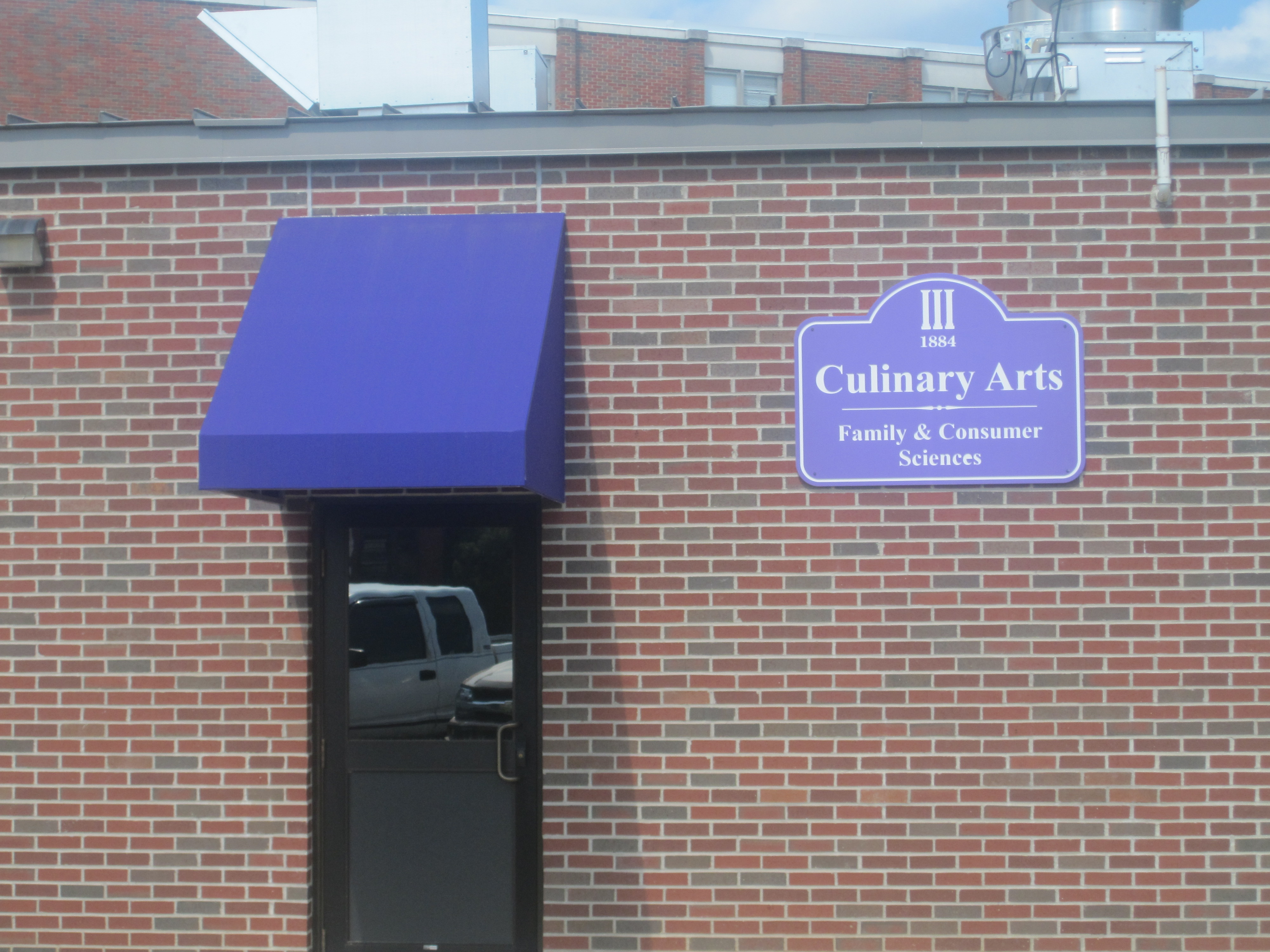 Culinary Arts Building, NSU, Natchitoches, LA